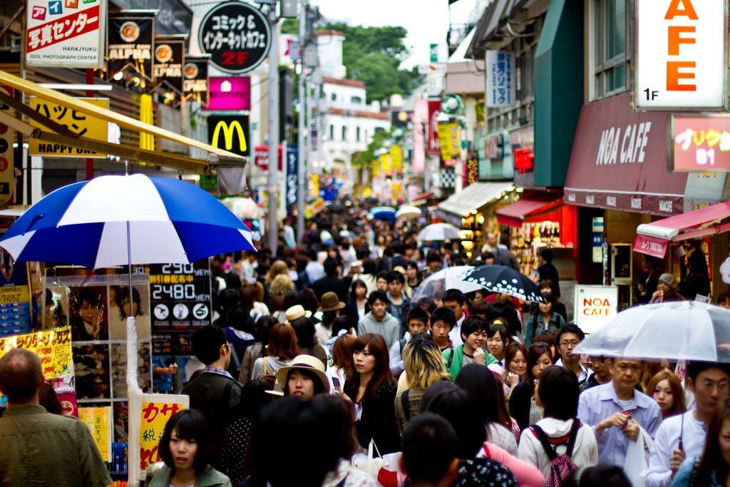 Takashita-dori, has seen from the beginning of the street.